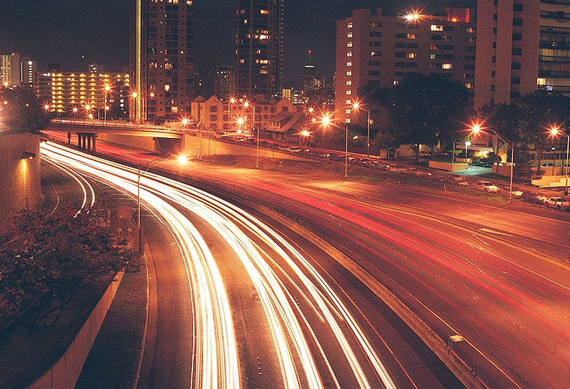 Time-lapse photo of the H-1 Freeway taken from the pedestrian footbridge near Ward Avenue. Photo by Christopher P. Becker. Photo taken in the summer of 1999.